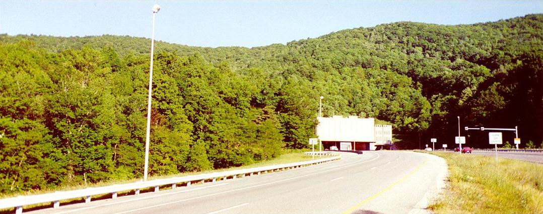 I took this picture on May 30, 2000. This is northbound.